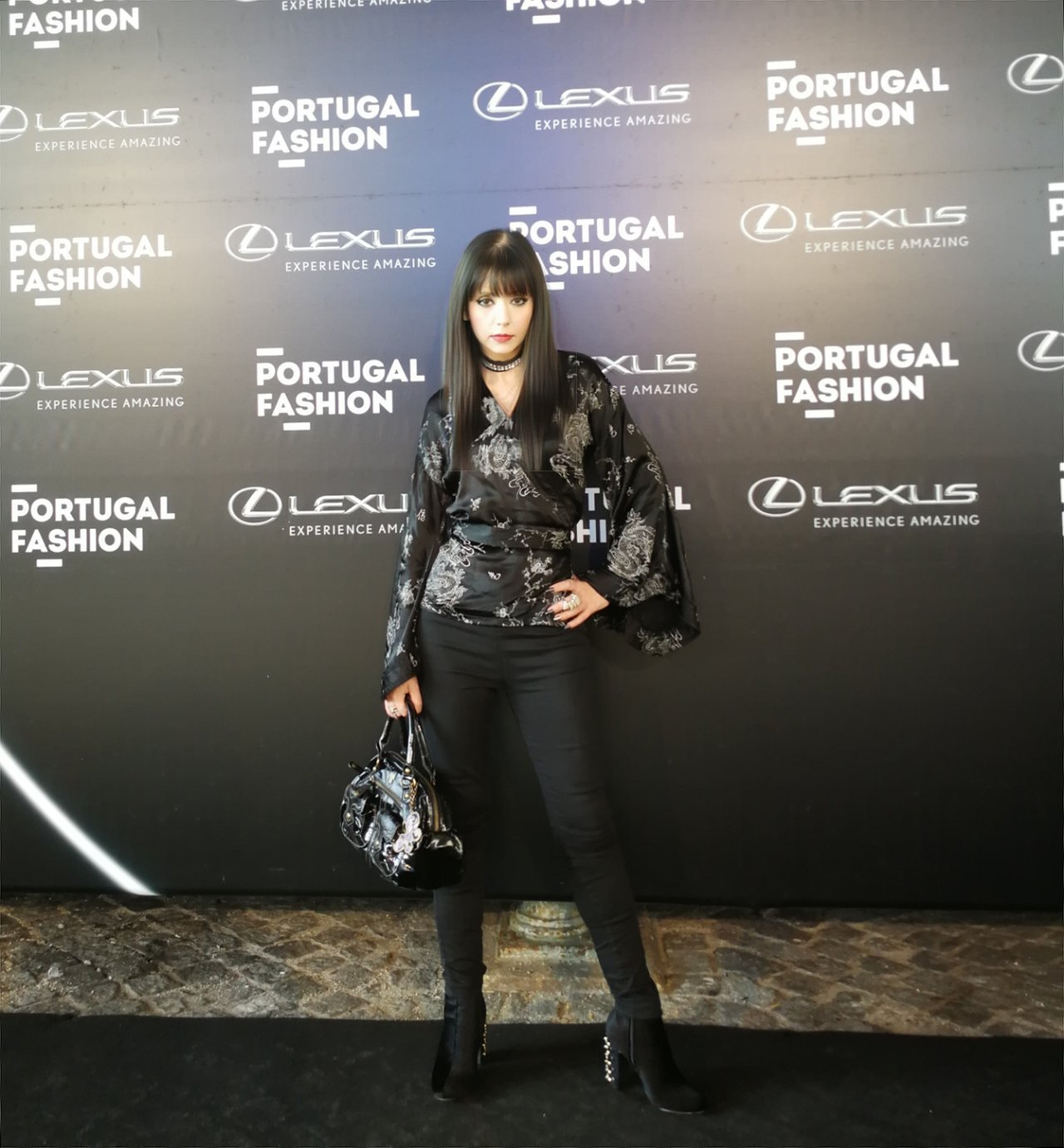 Vera Von Monika at Portugal Fashion Week 2018